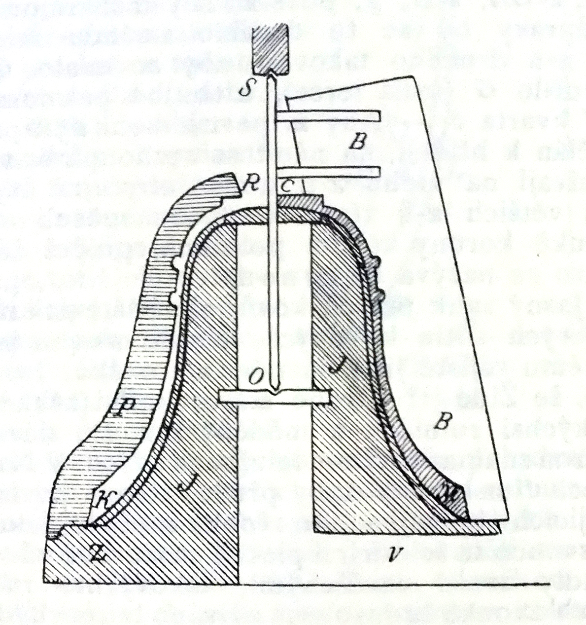 Drawing of a bell-casting mould using the "false bell" method. K is the false bell. J is the inner core and P is the outer core.